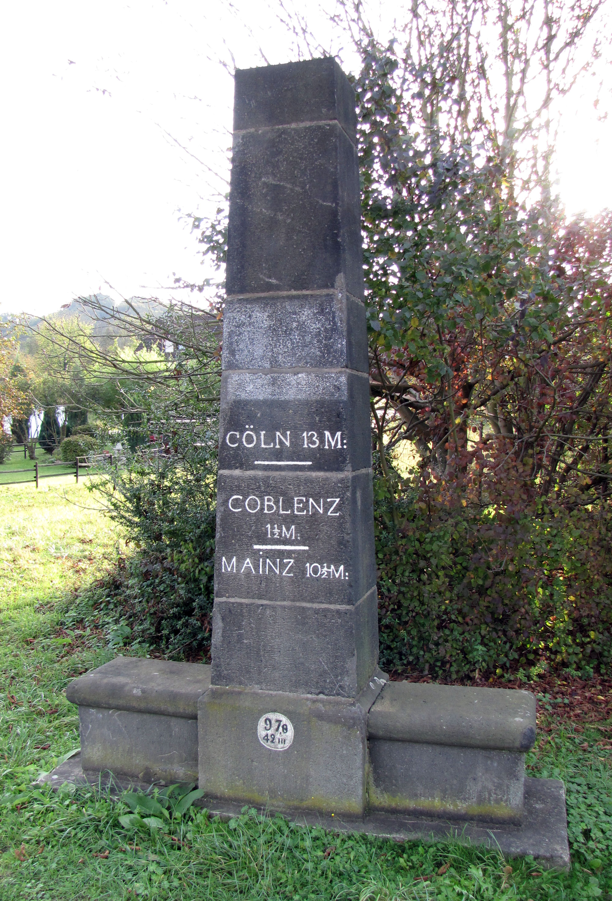 Prussian Milestone in the middle rhine valley nearby Brey